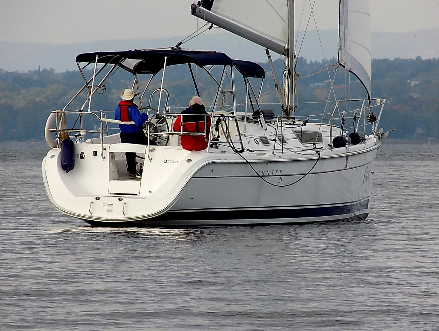 A Hunter 31-2 sailboat named Oasis.